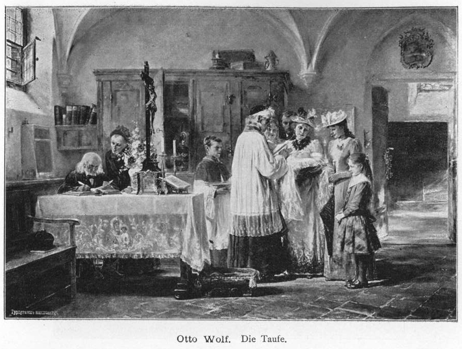 Otto Friedrich Wolf - Die Taufe